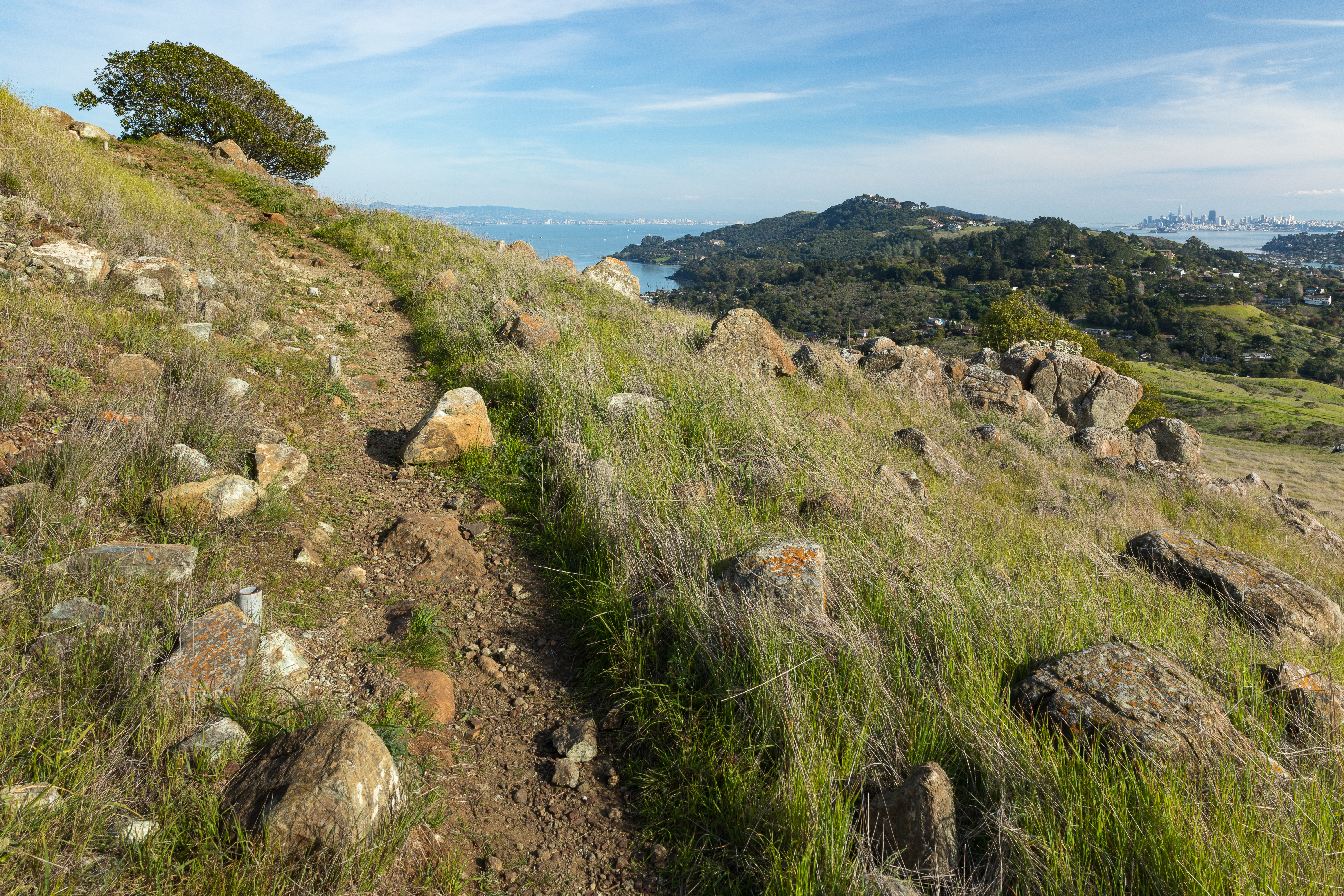 View of the Tiburon Peninsula and the Bay from Ring Mountain, Marin County, California